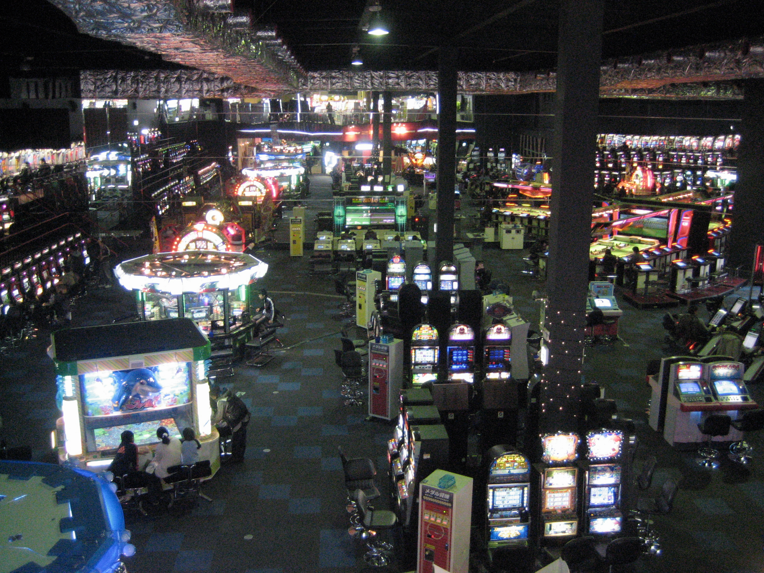 Interior of Video arcade in Japan.